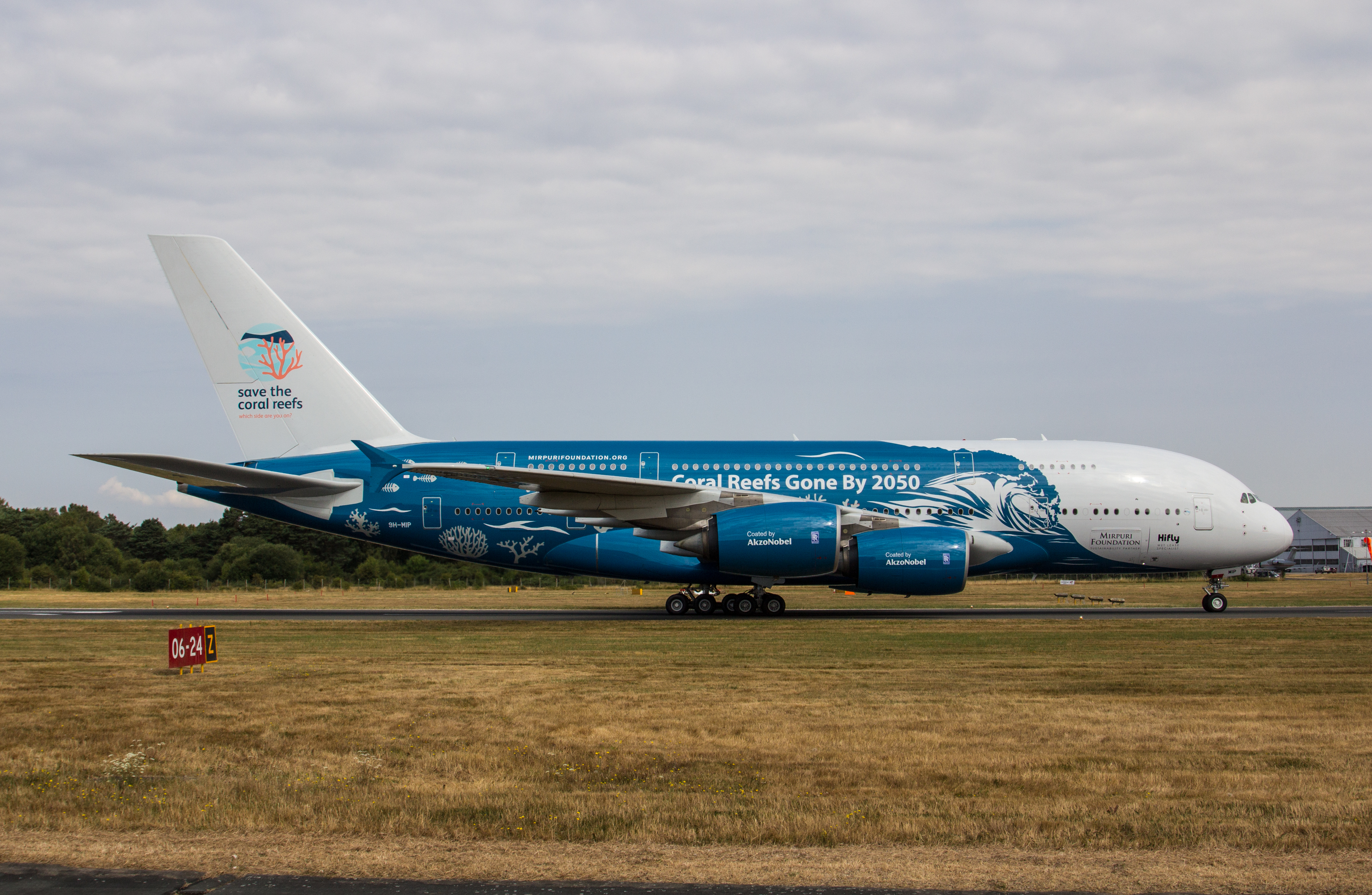 Farnborough International Airshow 2018, Hampshire